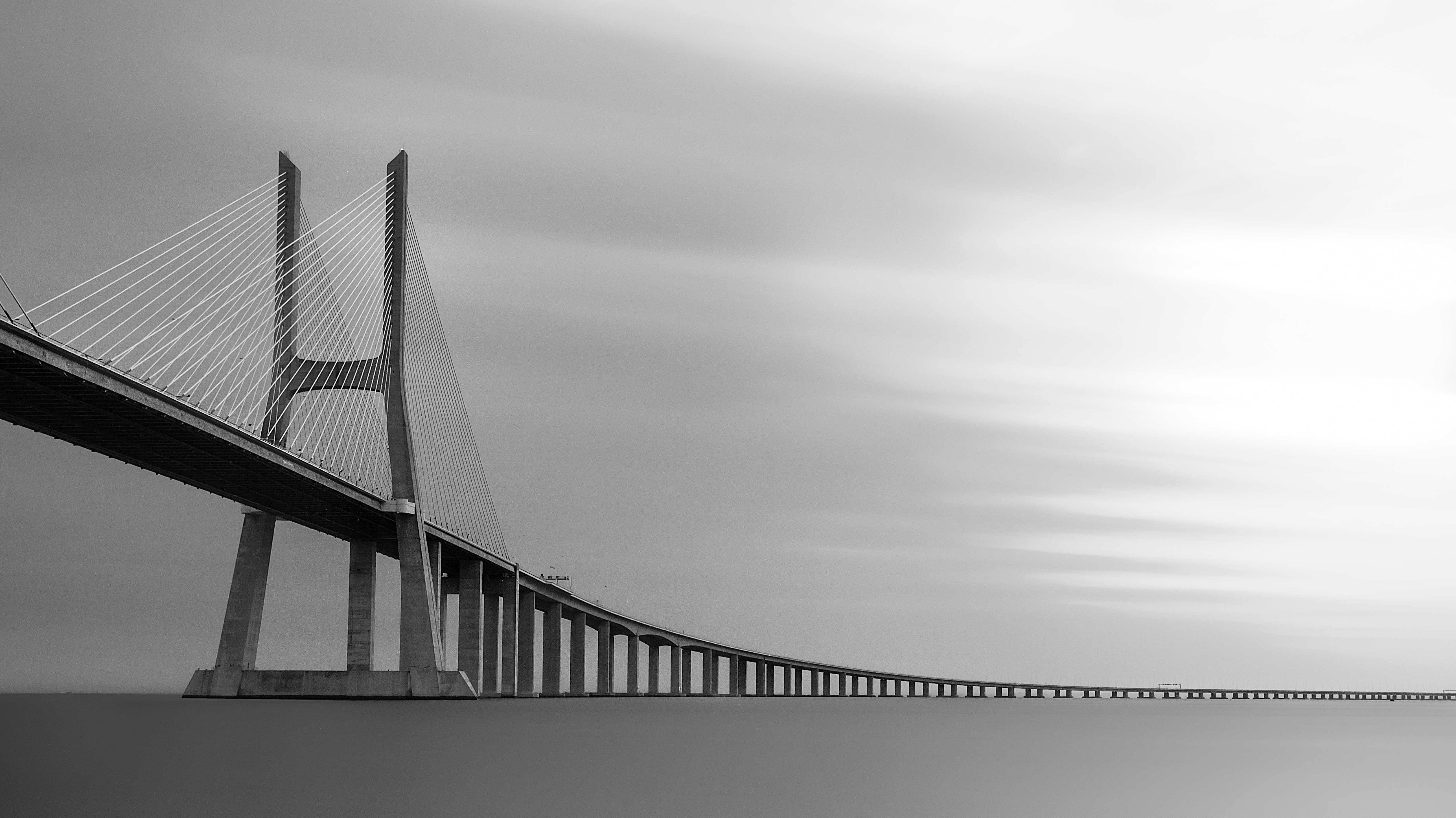 Vasco da Gama Bridge (Ponte Vasco da Gama), Lisbon, Portugal.